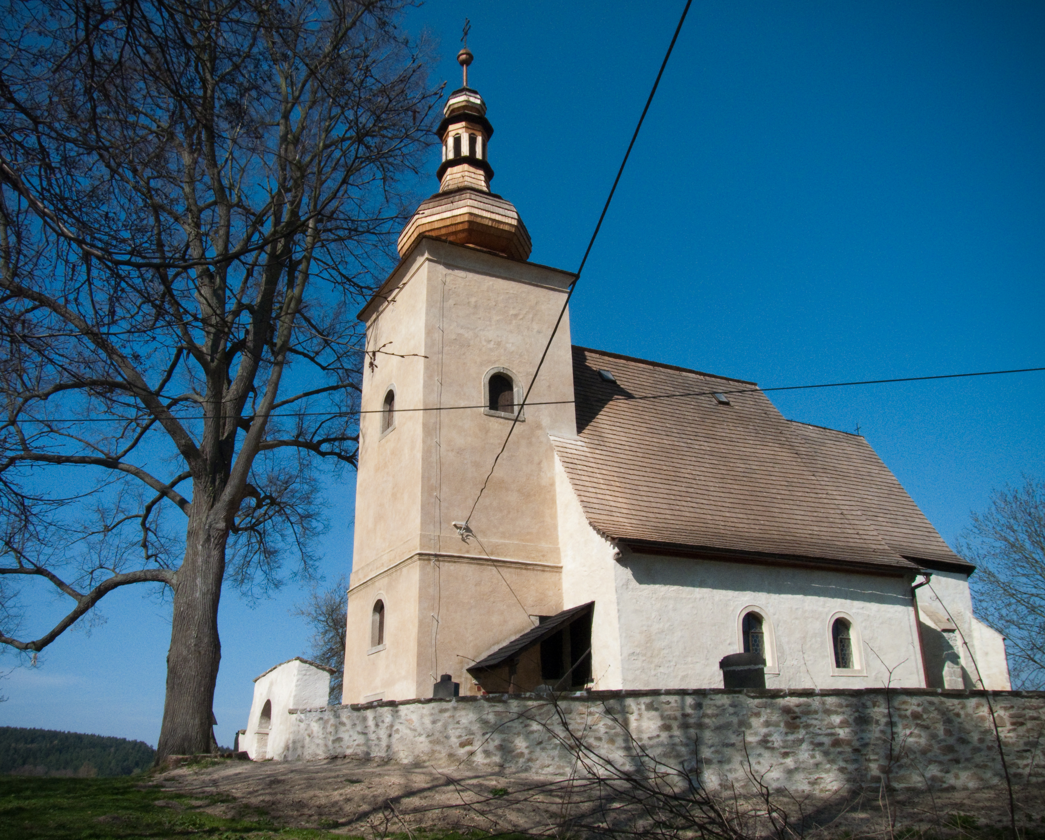 Church of St. Margaret in the village of Loukov, Pelhřimov District, Czech Republic